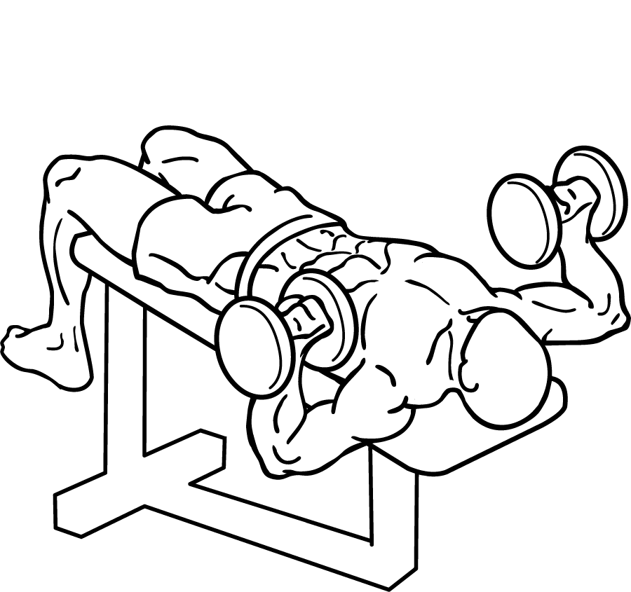 an exercise of chest